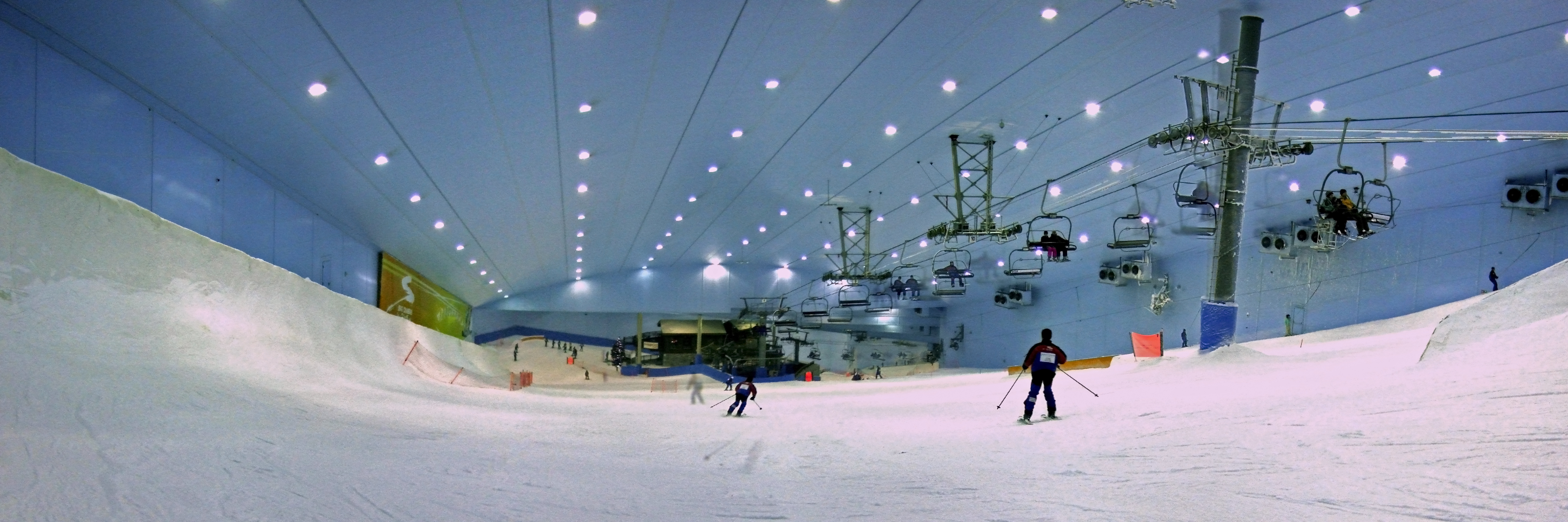 Indoor ski resort in the Emirates mall.